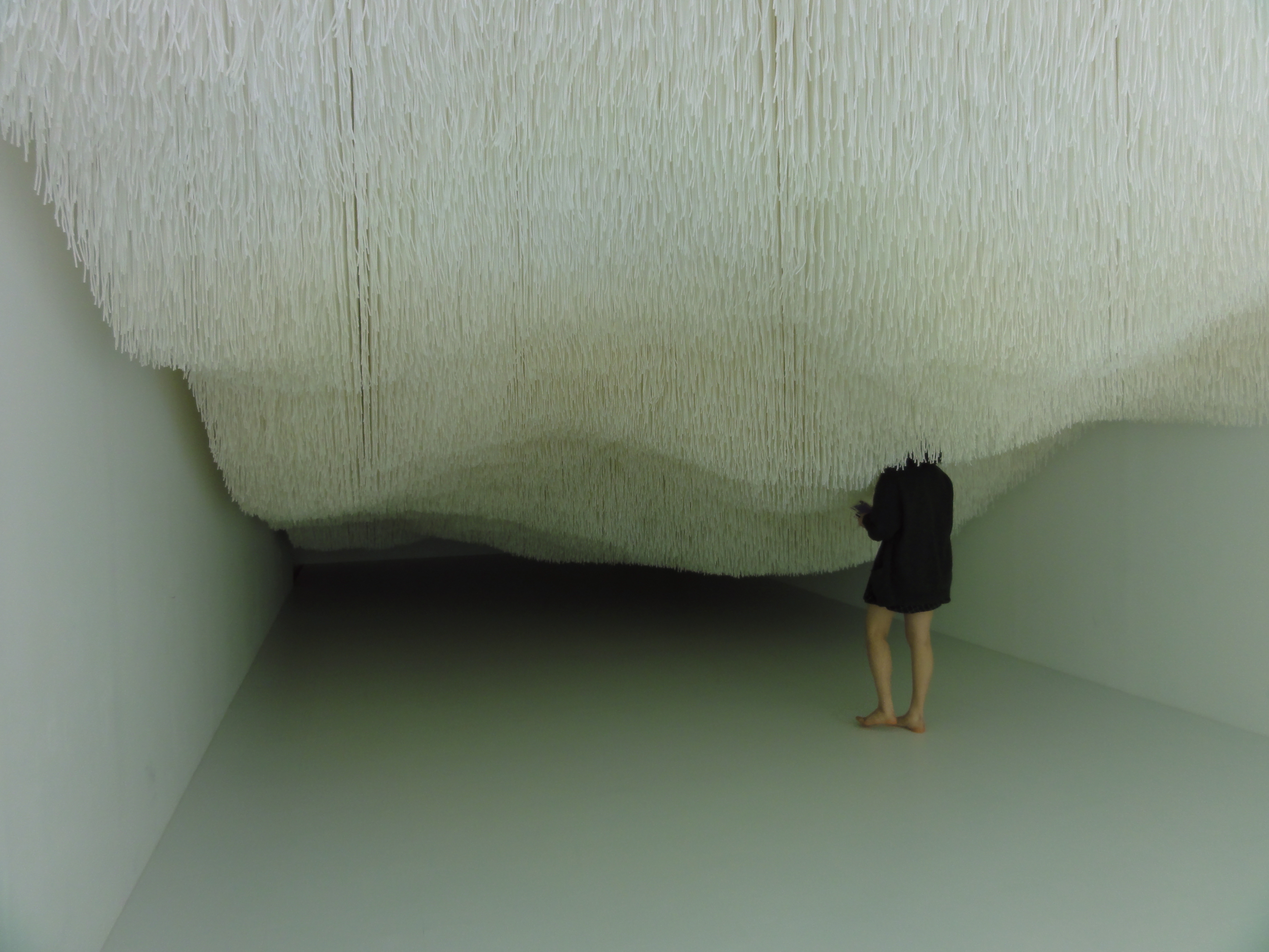 National Museum of Modern and Contemporary Art in Seoul